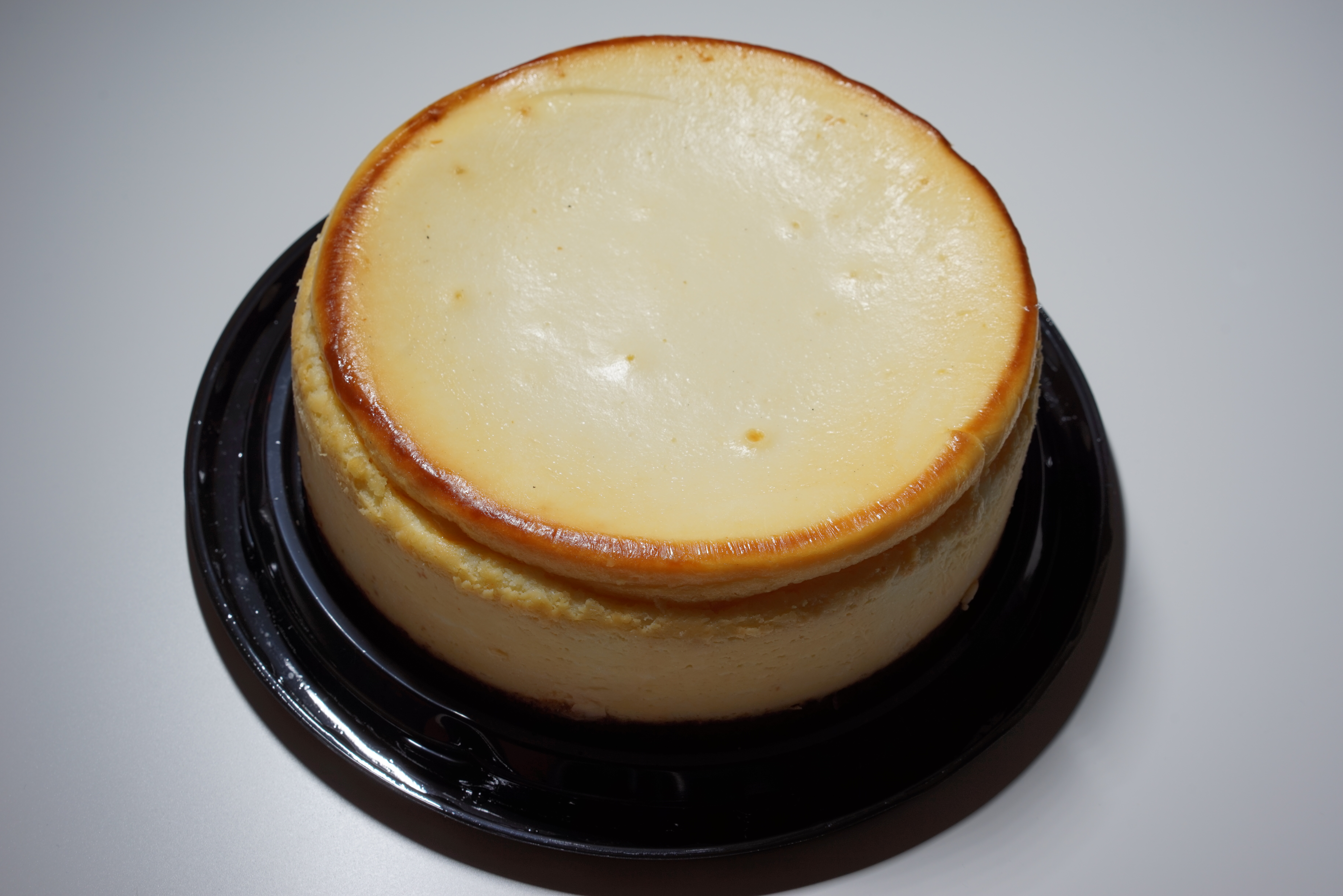 A plain New York-style cheesecake that I bought in Pittsburgh.